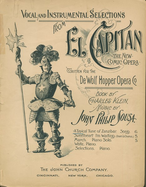 Sheet music from "El Capitan" (operetta by John Philip Sousa), 1896